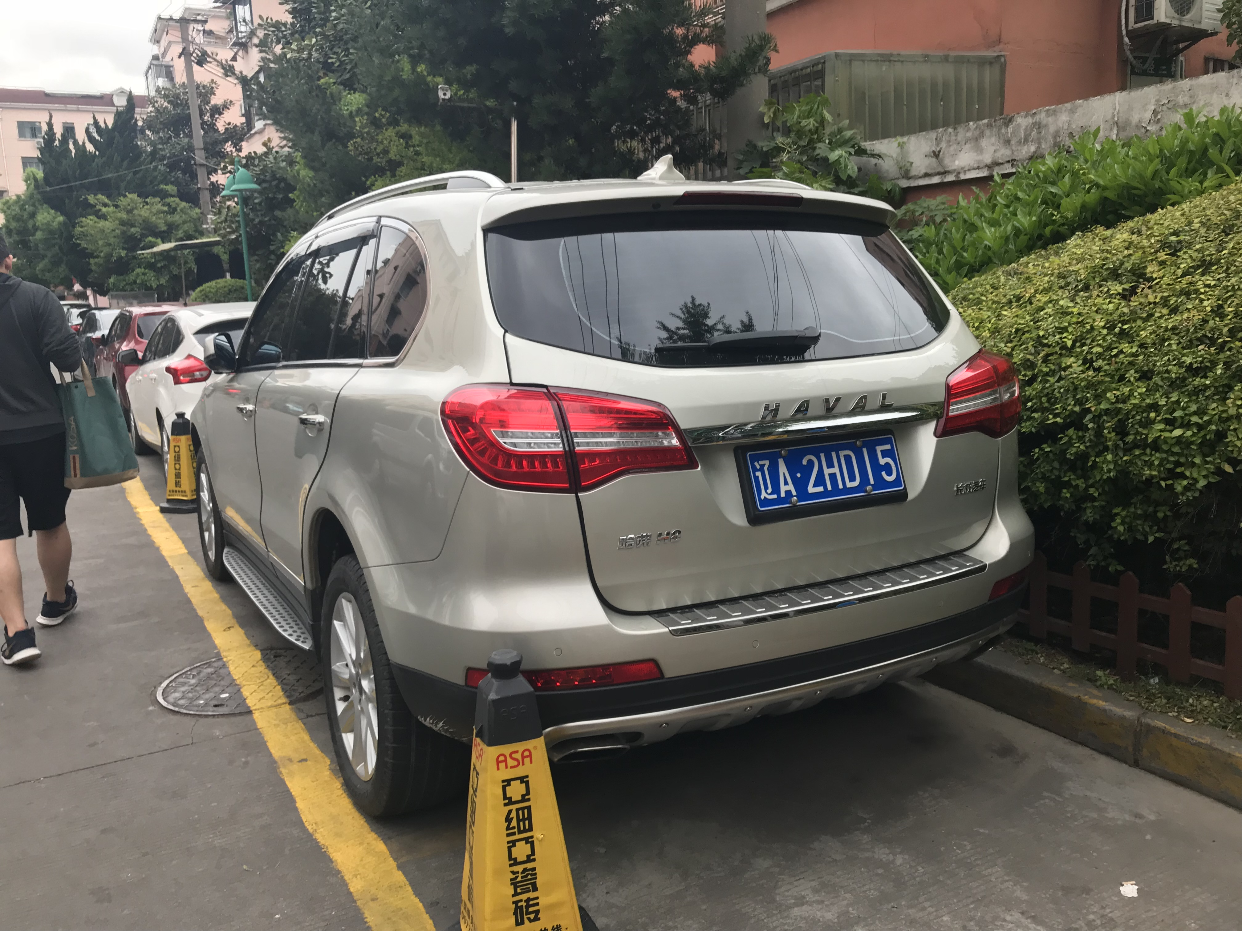 Haval H8 Red Label